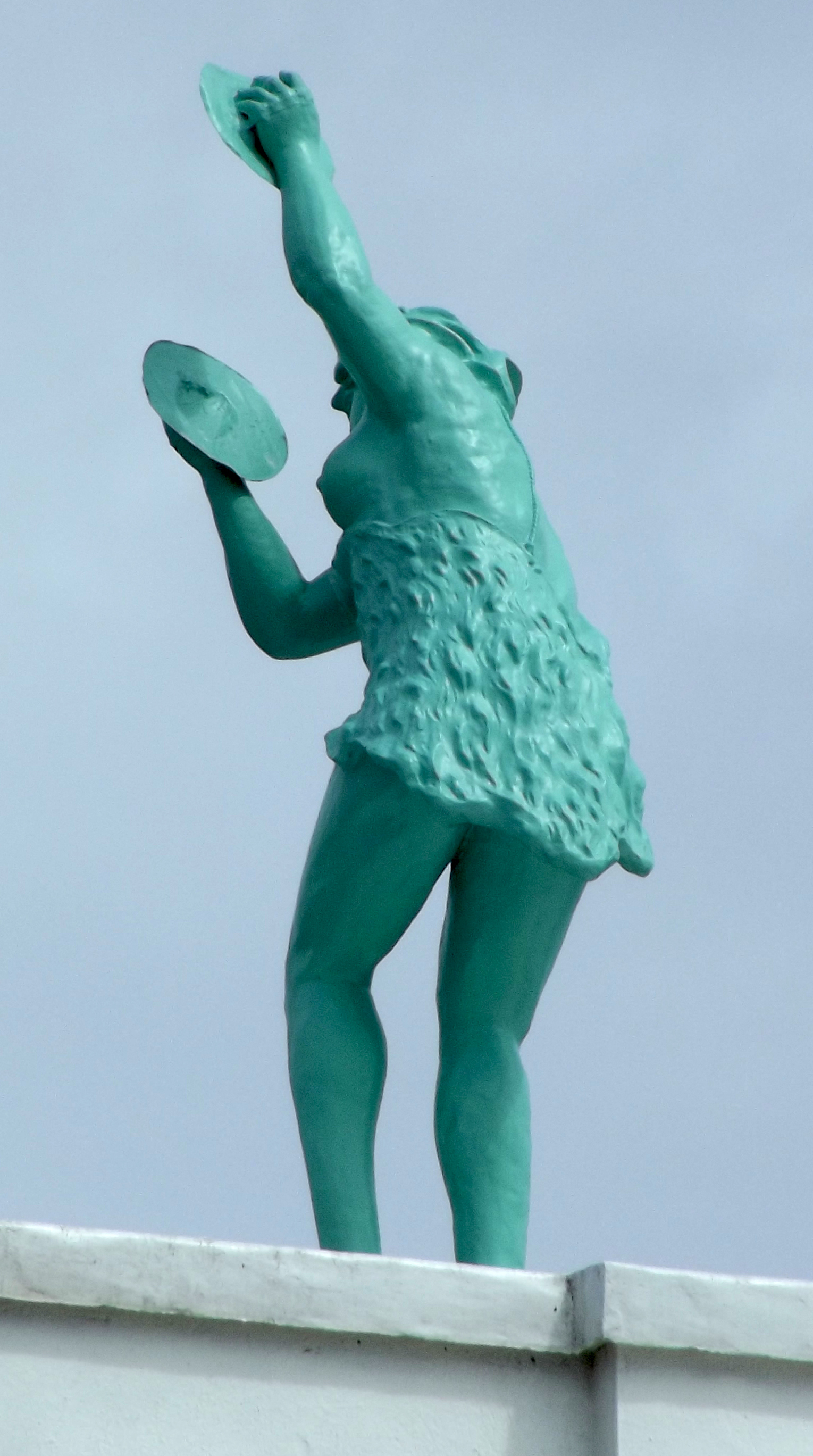 One of the figures on the dome of the Spanish City, Whitley Bay, England